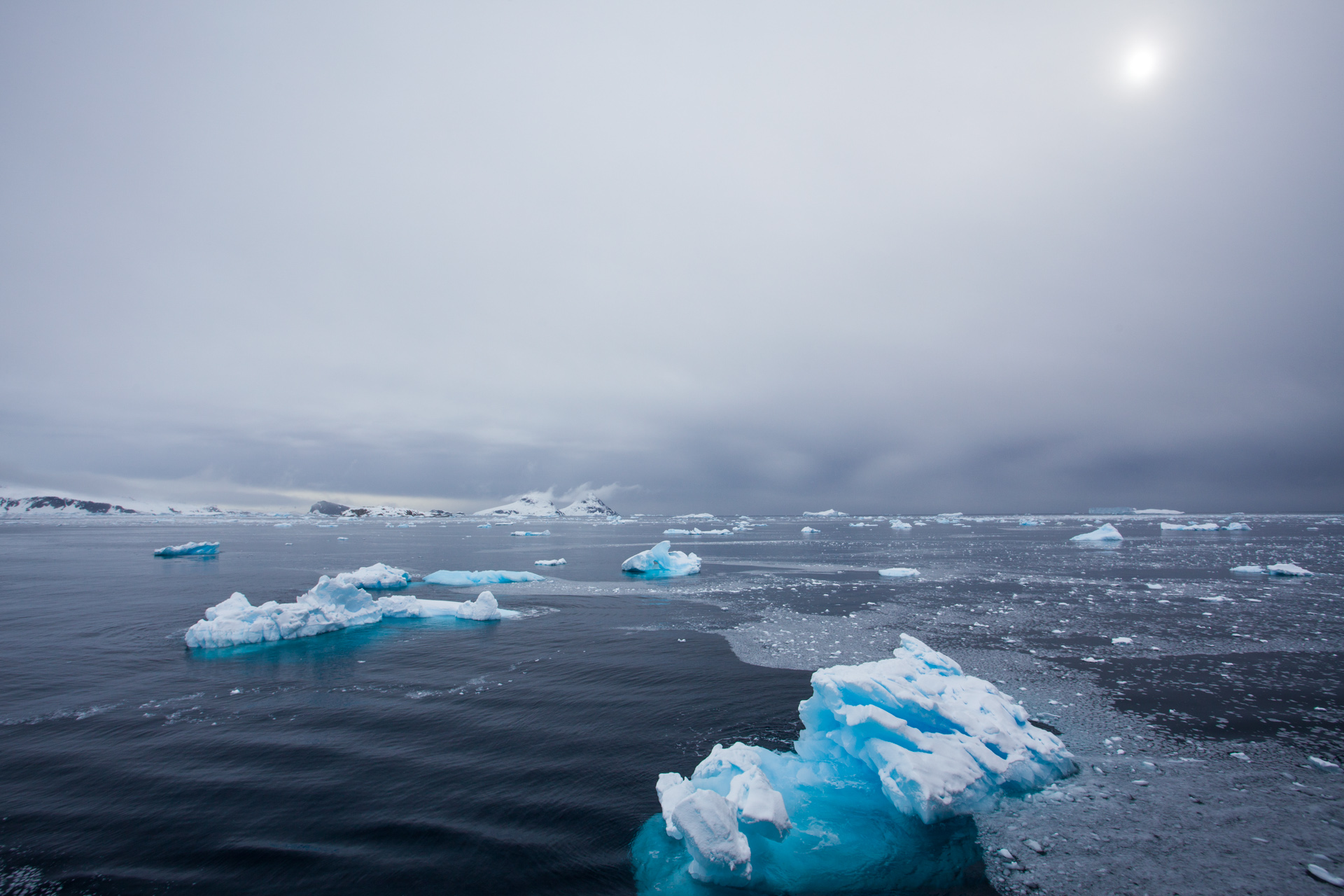 Blue Ice in Icebergs, Antarctica. Photograph by Anne Dirkse